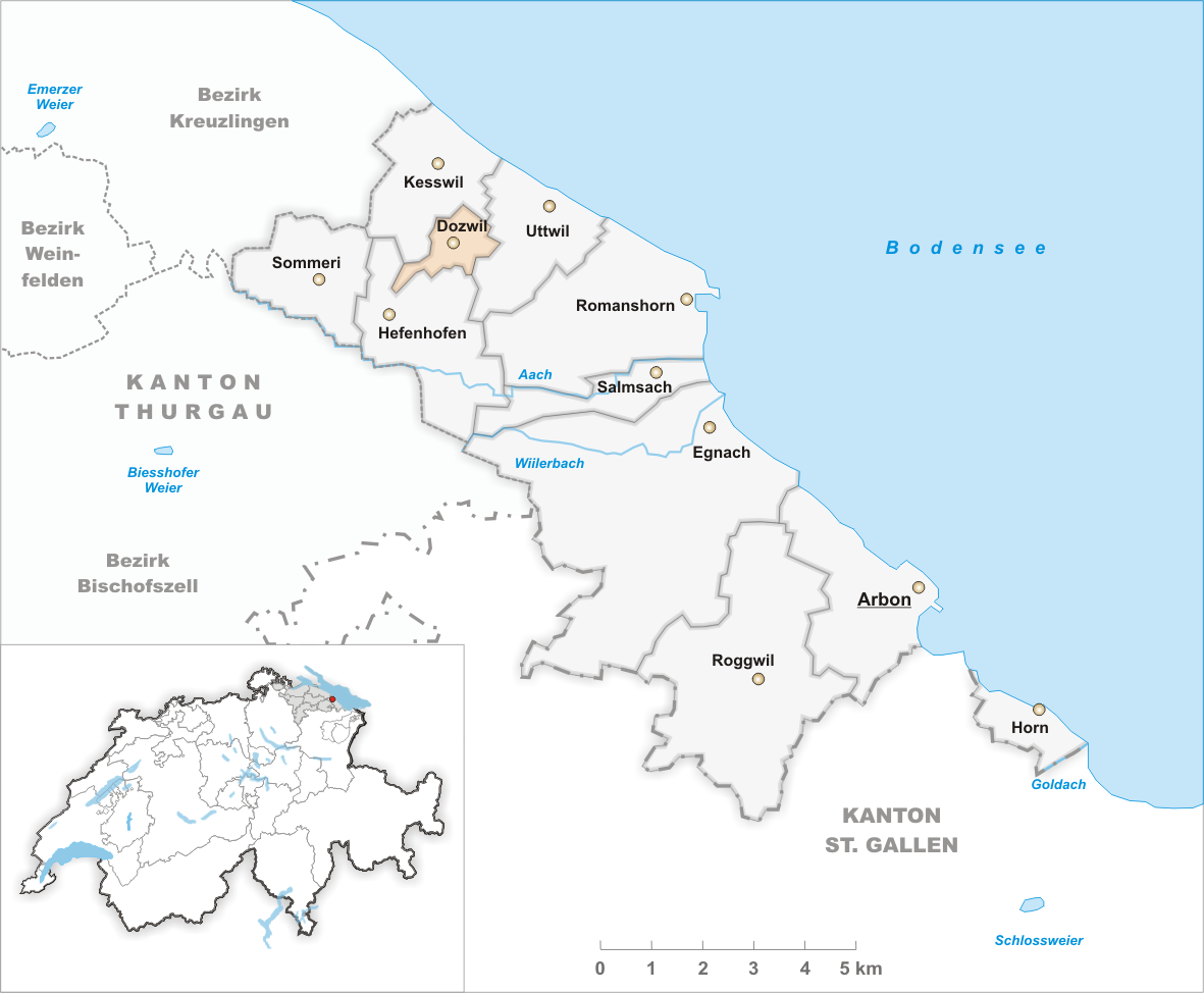 Municipality Dozwil